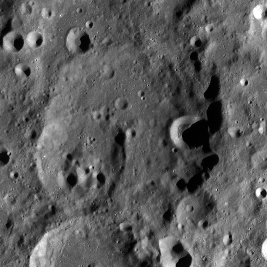 Cockcroft crater, on the far side of the moon. LRO Wide Angle Camera mosaic.